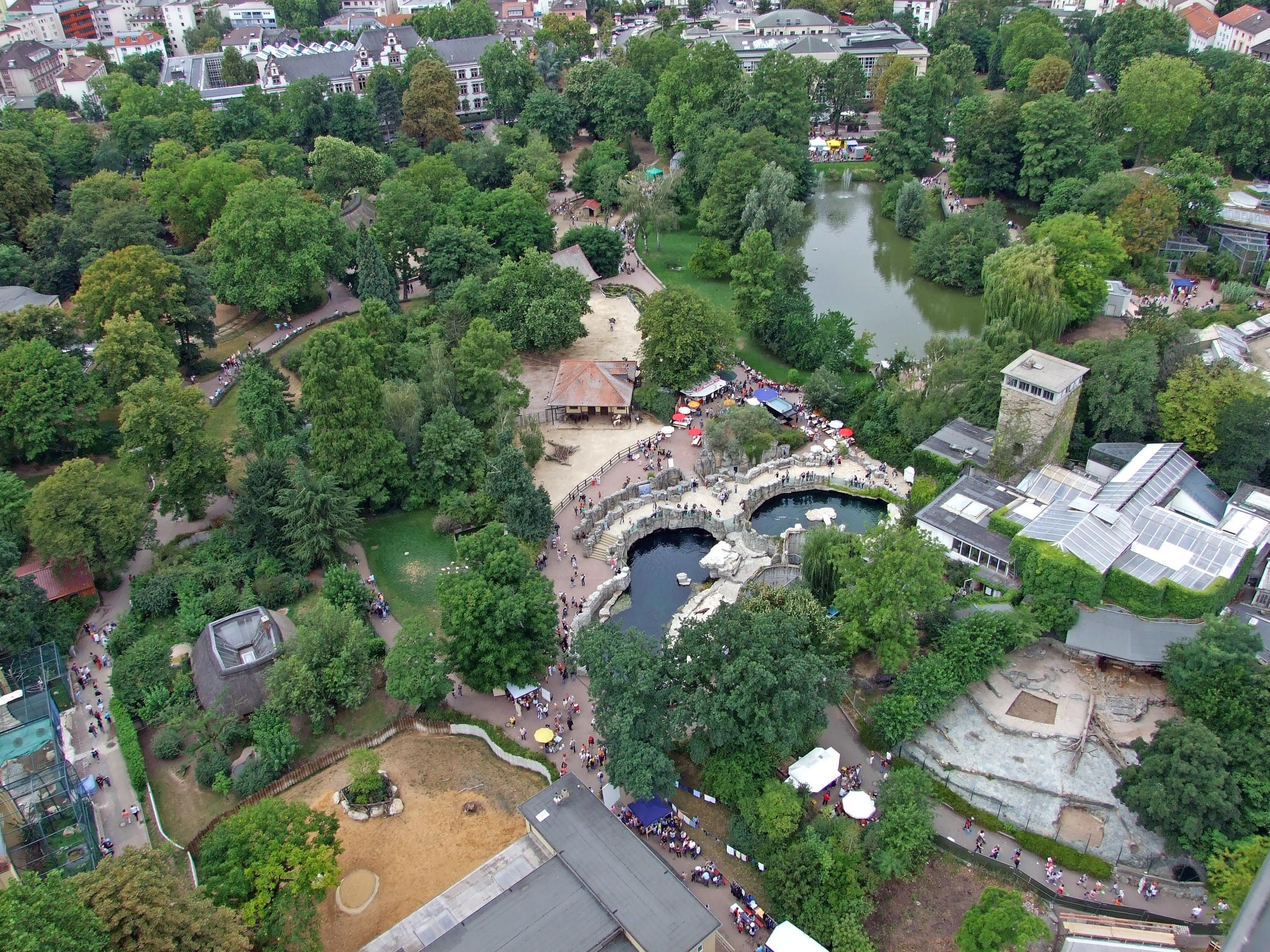 Frankfurt Zoological Garden from above, main entrance on top, Frankfurt am Main Ostend